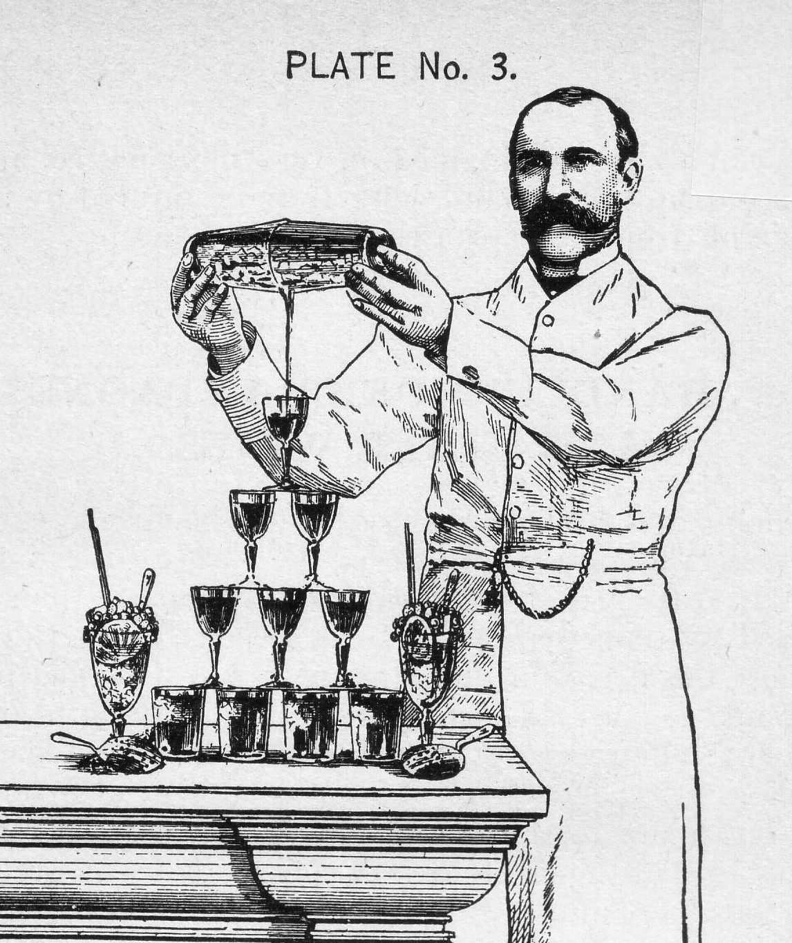 Harry Johnson's style of straining mixed drinks to a party of six (a part of image).